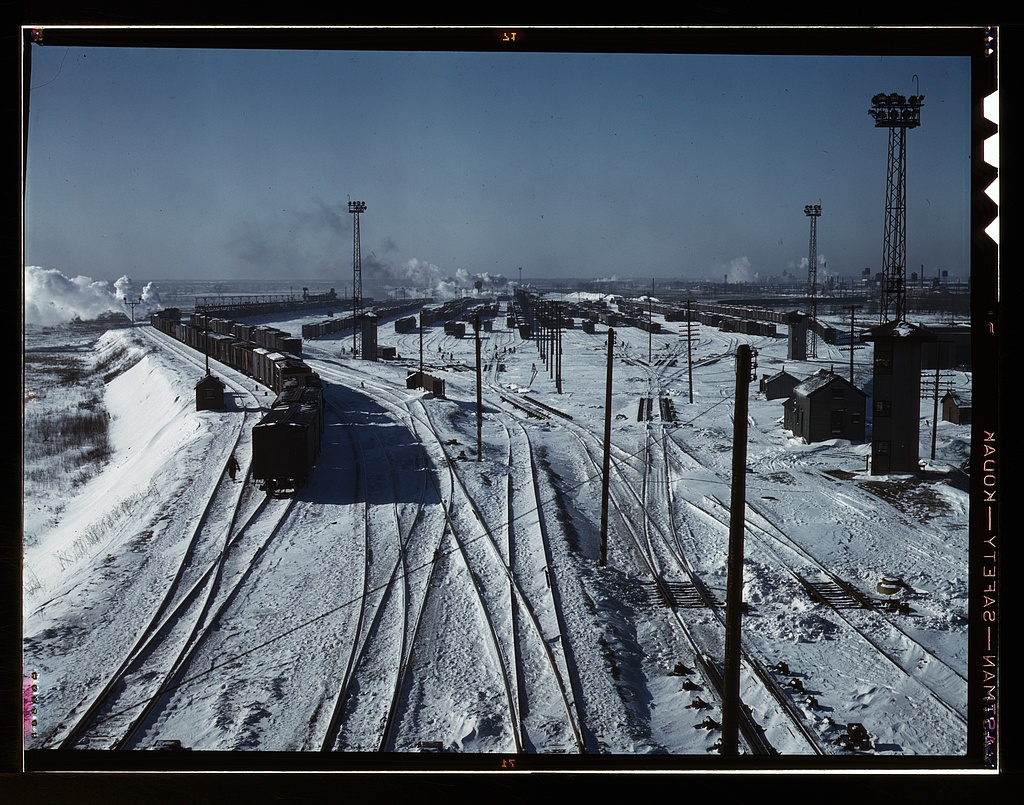 Summary: Photo shows the clearing yard at the Belt Railway Company of Chicago, taken from a structure above the hump tracks. (Source: Flickr Commons project and Bill Gustason, Chicago Area Rail Junctions, Hayford/Clearing Yard, 2008)